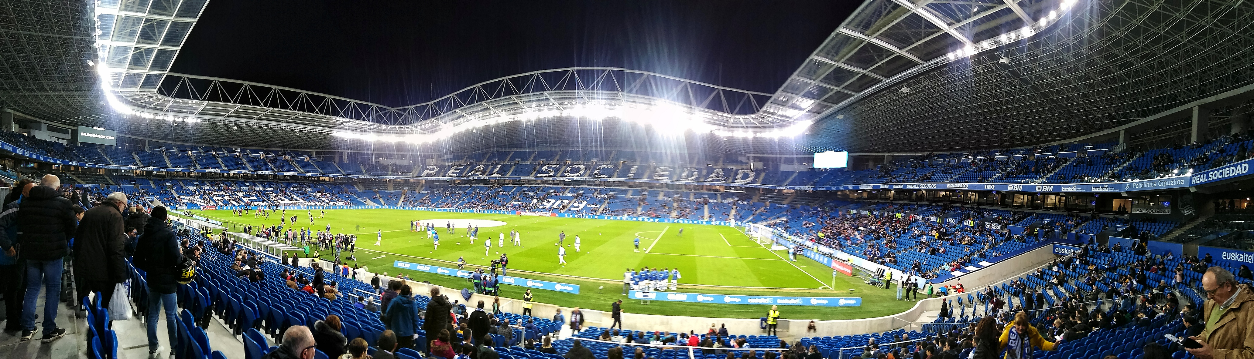 Anoeta stadium, Donostia, Gipuzkoa, Basque Country